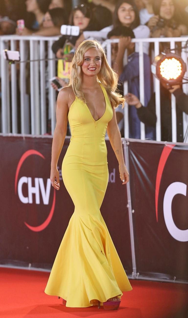 kika silva in viña